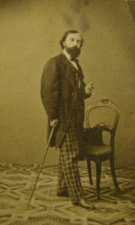 Picture of the beginning of XX century (1900-1903)